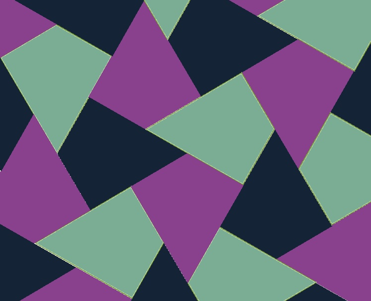 A deltoid (kite) tessellation. non-regular planer tiling. the central 4 kites, in their formation, repeat endlessly.